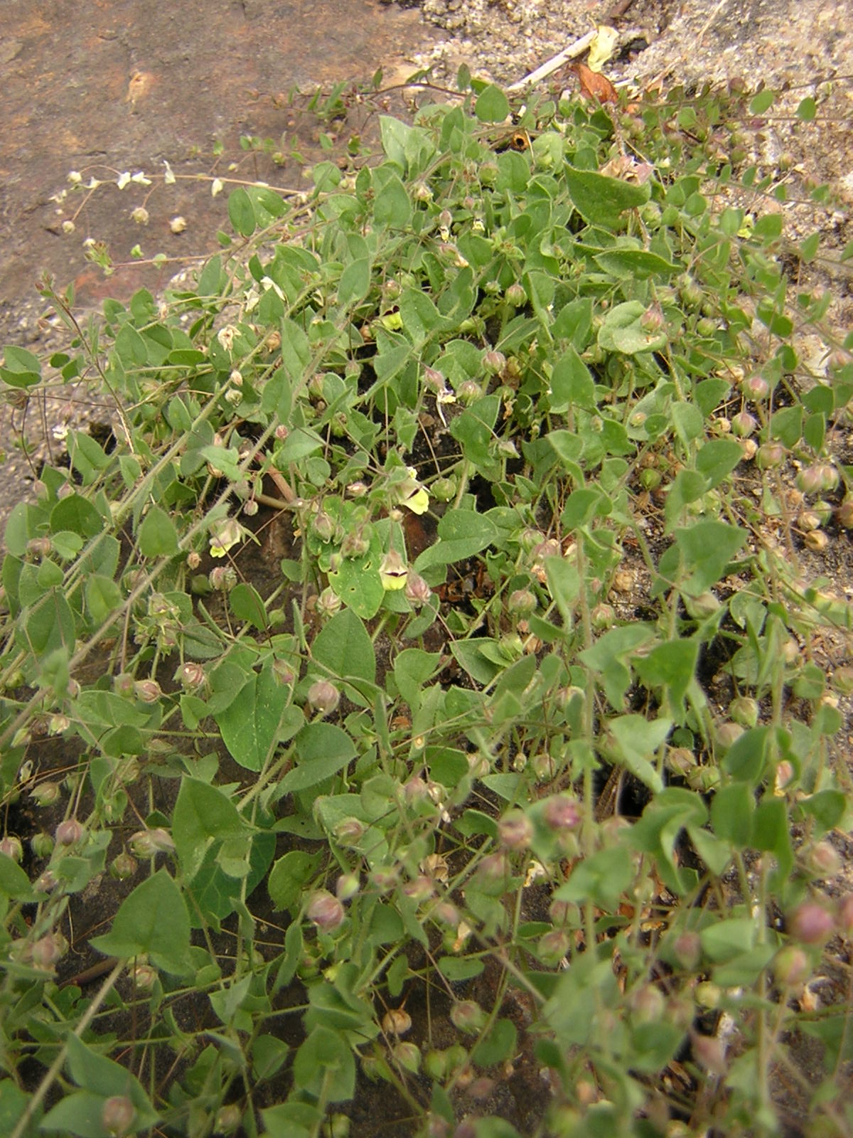 Kickxia elatine